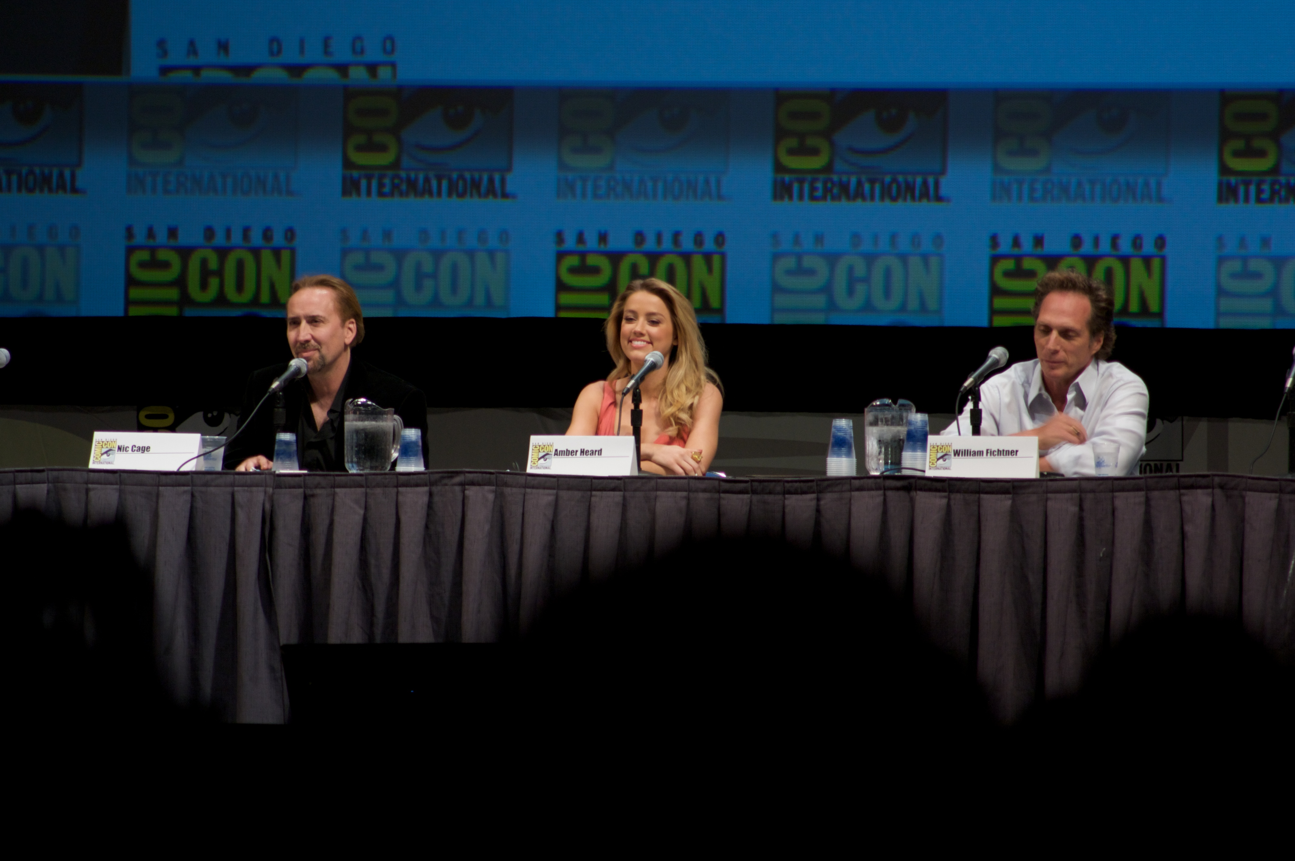 Drive Angry 3D Panel. Actors Nicolas Cage, Amber Heard and William Fichtner at San Diego 2010 Comic-Con International.